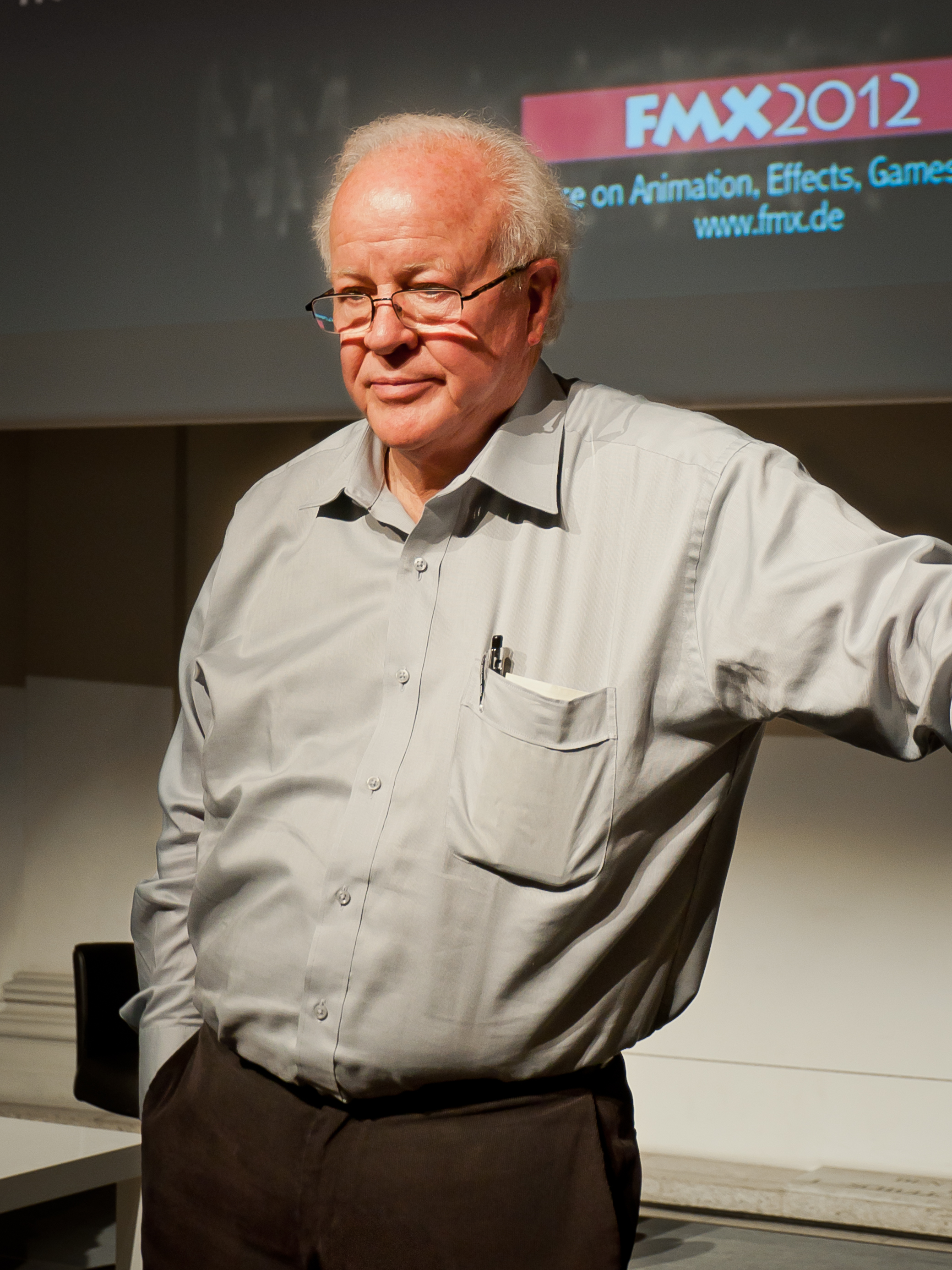 Douglas Trumbull is answering questions after a talk at FMX 2012. (Haus der Wirtschaft, Stuttgart, Germany)